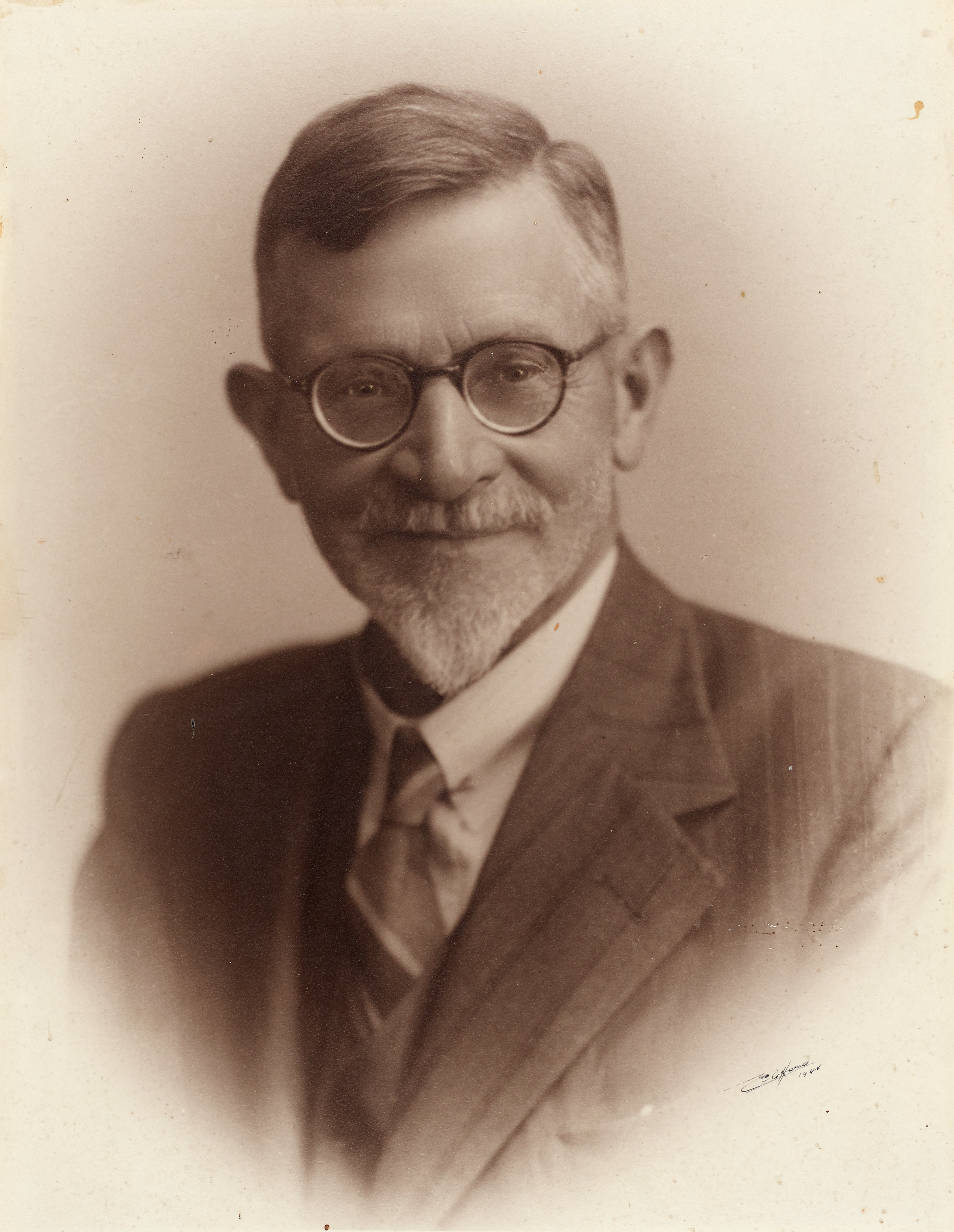 Photograph of C Morgan Williams, New Zealand Politician, 1944